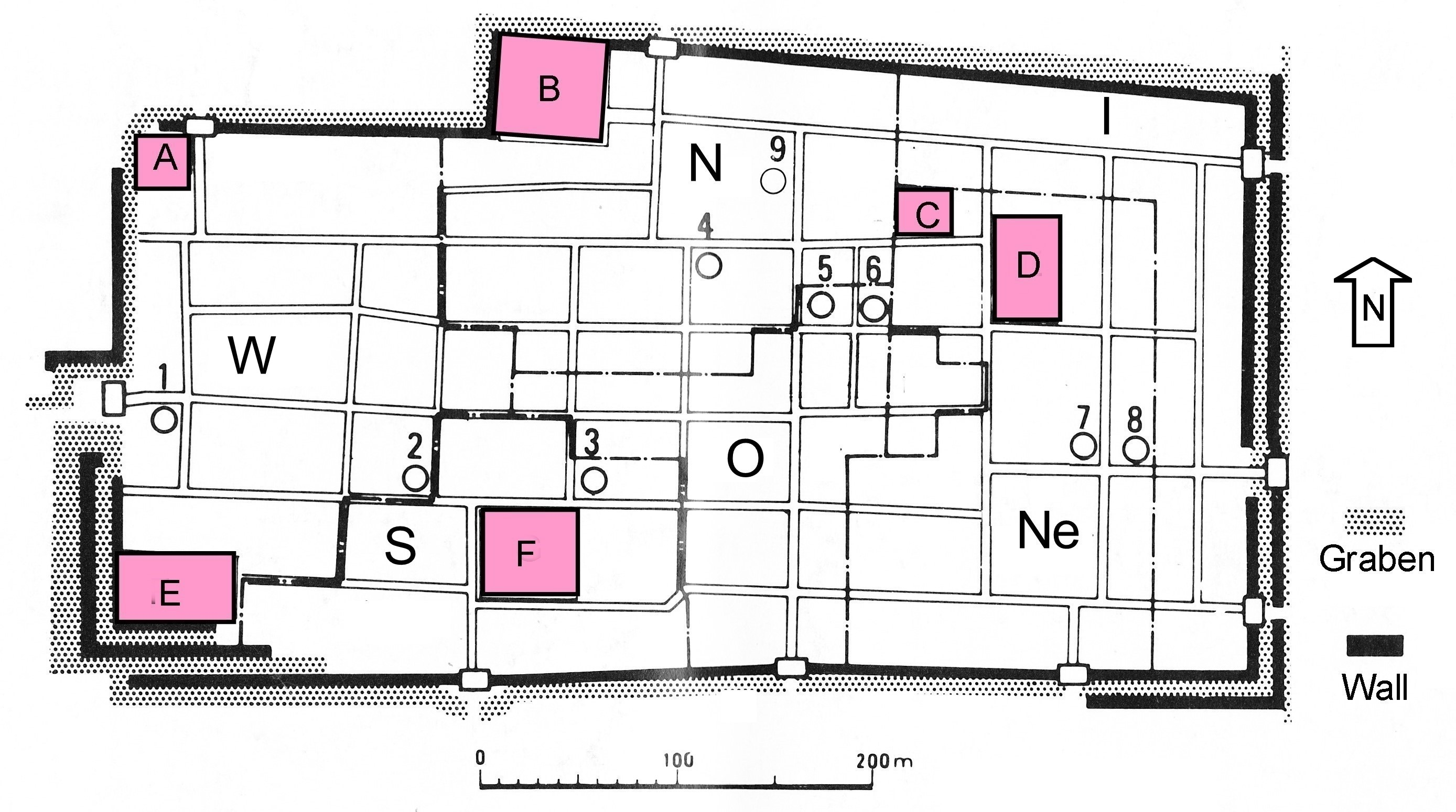 Old Imai (Nara Prefecture), now Imai-cho within Kashihara